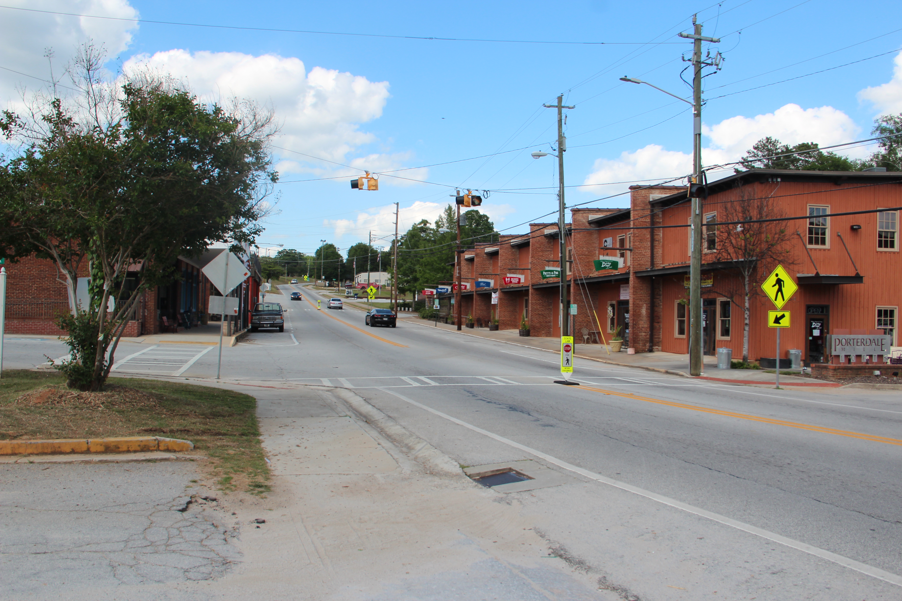 Main street (Georgia State Route 81) in Porterdale, Georgia